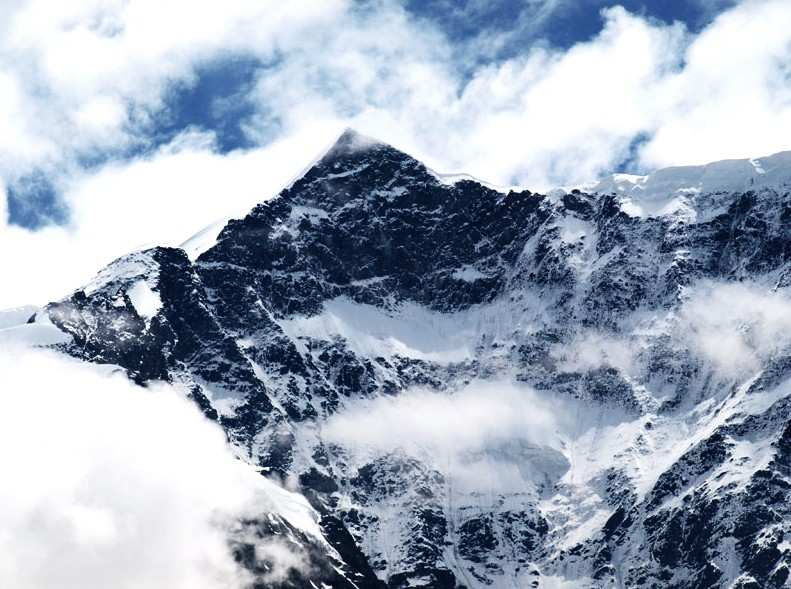 North wall of Ochs (klein Fiescherhorn), Bernese Alps